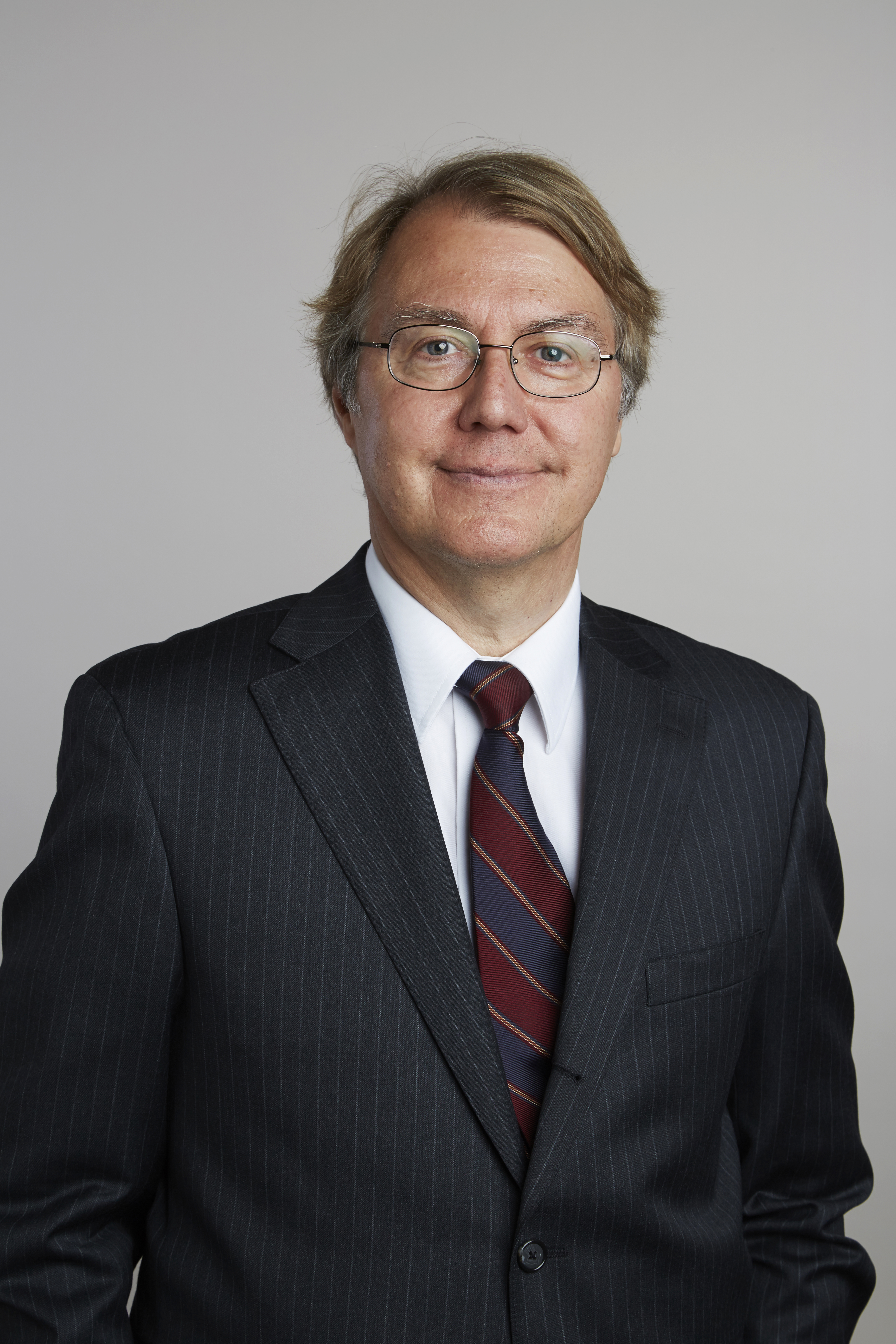 Andrew H. Knoll is the Fisher Professor of Natural History at Harvard University, United States. He received his PhD from Harvard in 1977, and following five years at Oberlin College, returned to Harvard as a faculty member in 1982. Andrew’s research focuses on the early evolution of life, the Earth’s early environmental history, and the interconnections between the two. His laboratory has made major contributions to our understanding of bacterial, eukaryotic and animal evolution while pioneering the use of isotopic geochemistry for both stratigraphic correlation and palaeoenvironmental reconstruction. Andrew also served on the science team for NASA’s Mars Exploration Rover Mission. Andrew’s honours include the Walcott and Thompson medals of the US National Academy of Sciences (NAS), the Paleontological Society Medal, the Wollaston Medal of the Geological Society, the Oparin Medal of the International Society for the Study of the Origins of Life, and the Phi Beta Kappa Book Award in Science. He is a member of NAS, the American Academy of Arts and Sciences, and the American Philosophical Society. Attribution: The Royal Society